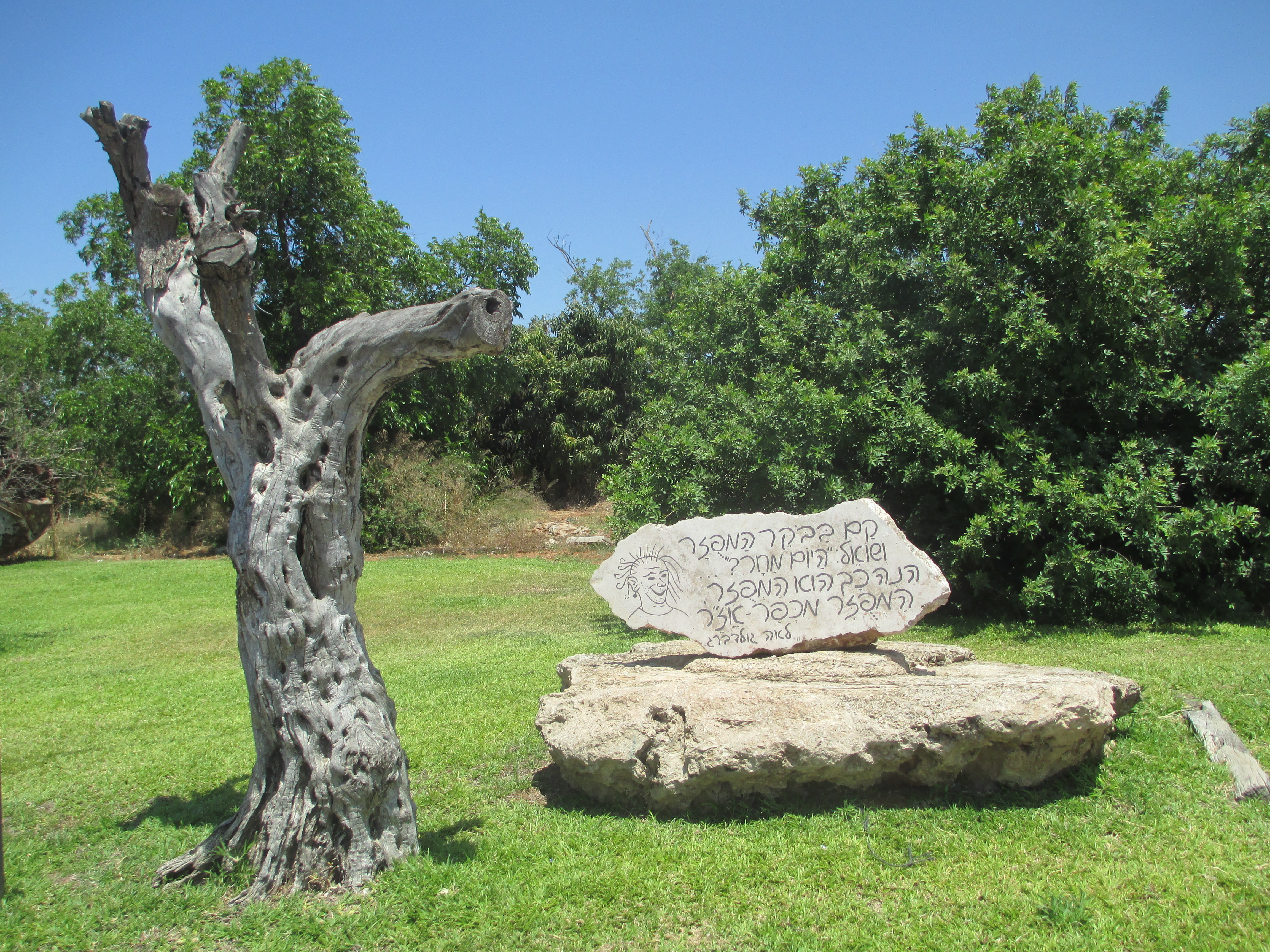 Kfar Azar